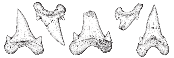 Teeth from the holotype of Cardabiodon ricki (Siverson, 1999) from the uppermost Gearle Siltstone, Giralia Anticline, Western Australia.